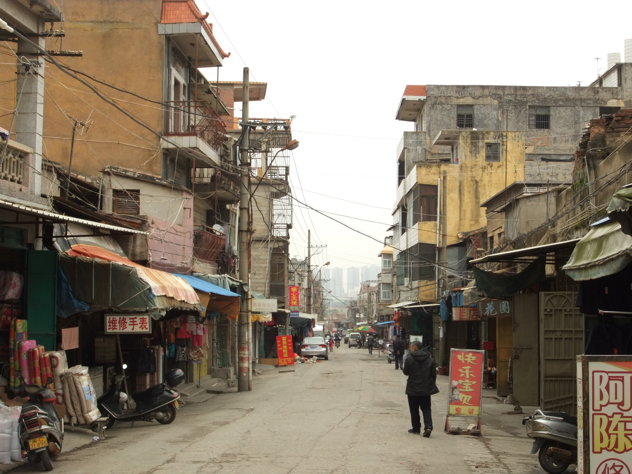 An old neighborhood of Shuitou Town, just west of the western end of Anpin Bridge. One enters the town through an arch inscribed 海潮庵 (Hai chao an); there is a small temple just to the south of it. One then can go west along an old-fashioned commercial street - which, probably, has existed at this location in various forms since the bridge was built during the Song Dynasty.